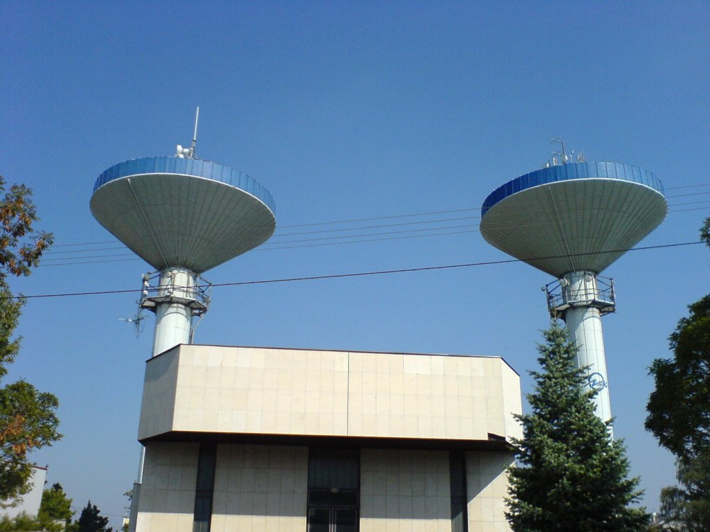 Water-towers, Ostrava-Hladnov.